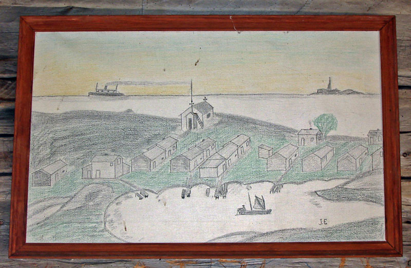 Drawing of the fisher chapel of Snöan as it was before the fishing village was destroyed by fire in 1912. The drawing can be seen inside the chapel.